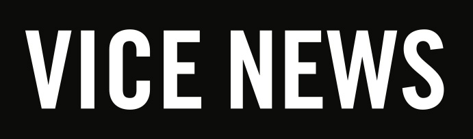 This is the logo of Vice News.